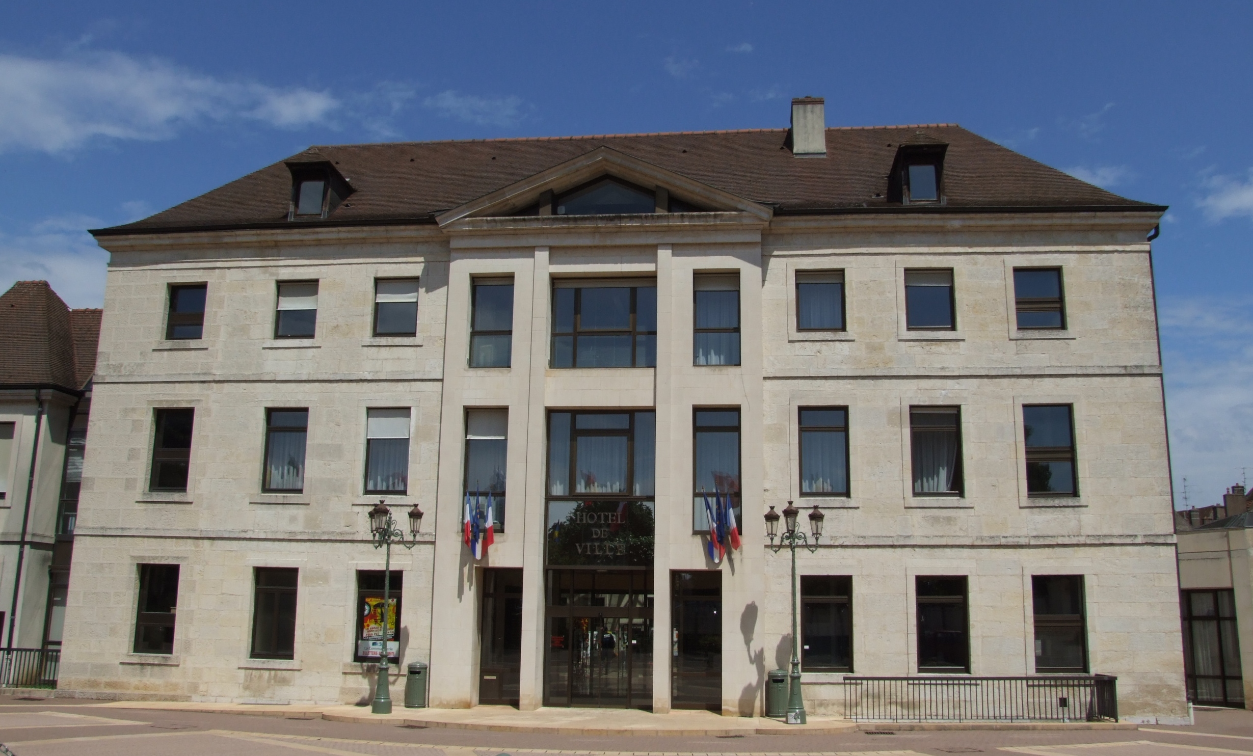 Dole, Jura, France